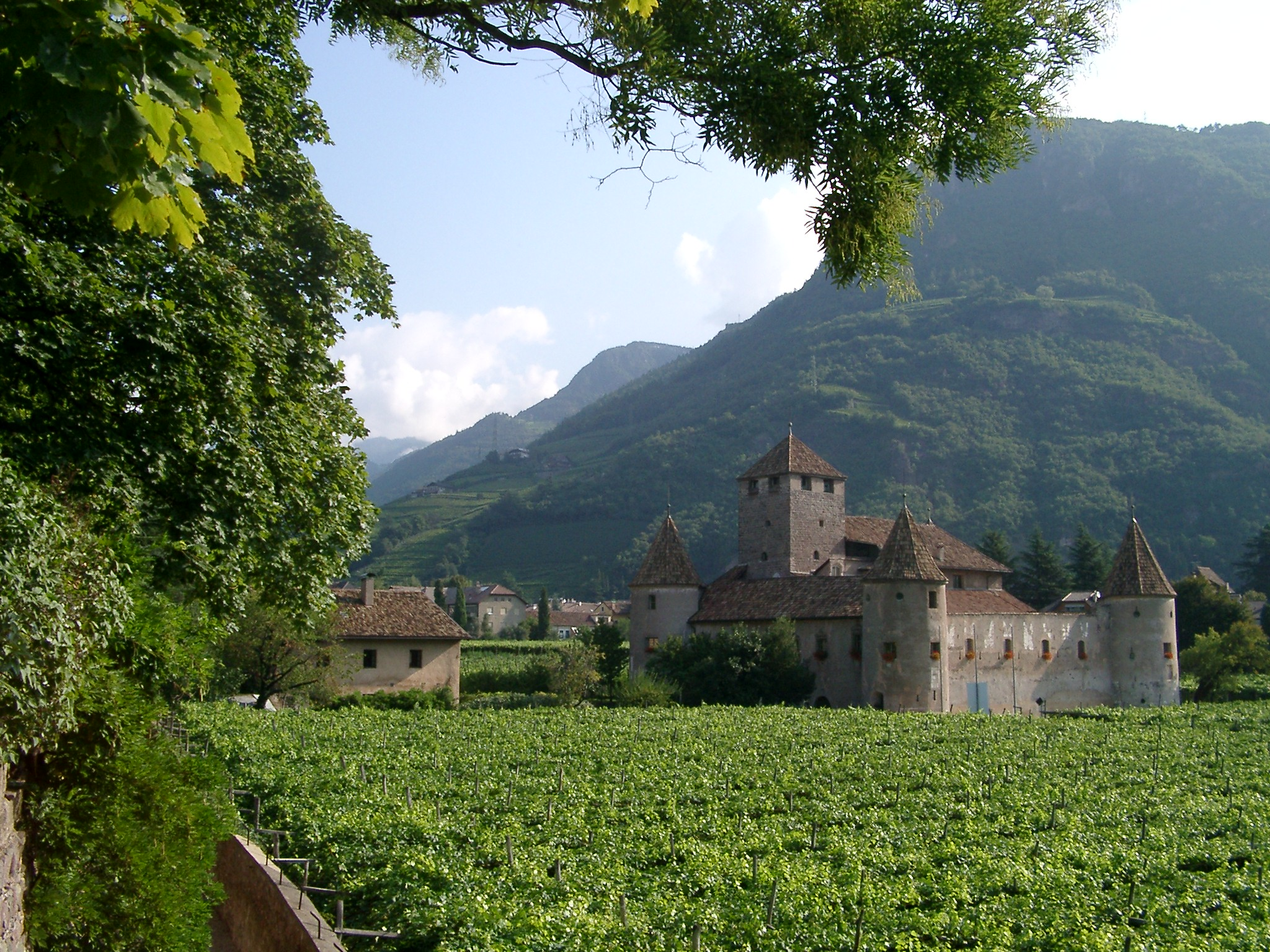 Maretsch Castle near Bozen, South Tyrol, Italy.